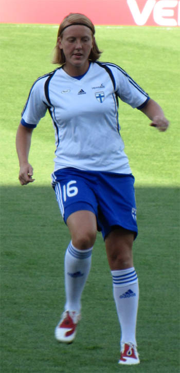 Anna Westerlund during warmup of Finland - Northern Ireland friendly match.